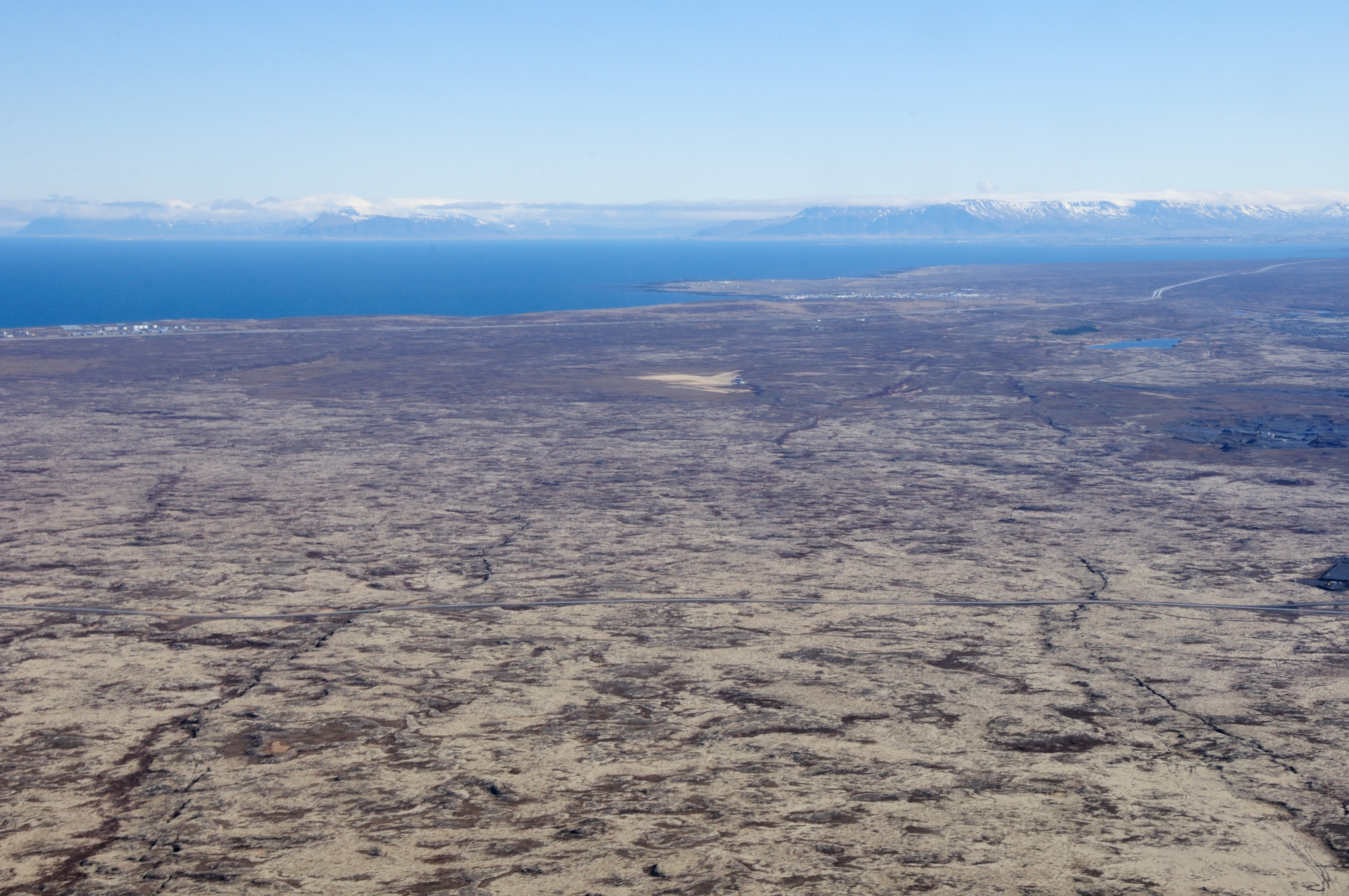 Iceland , picture take during the approach into KEF, unfortunately through a pretty dirty window.